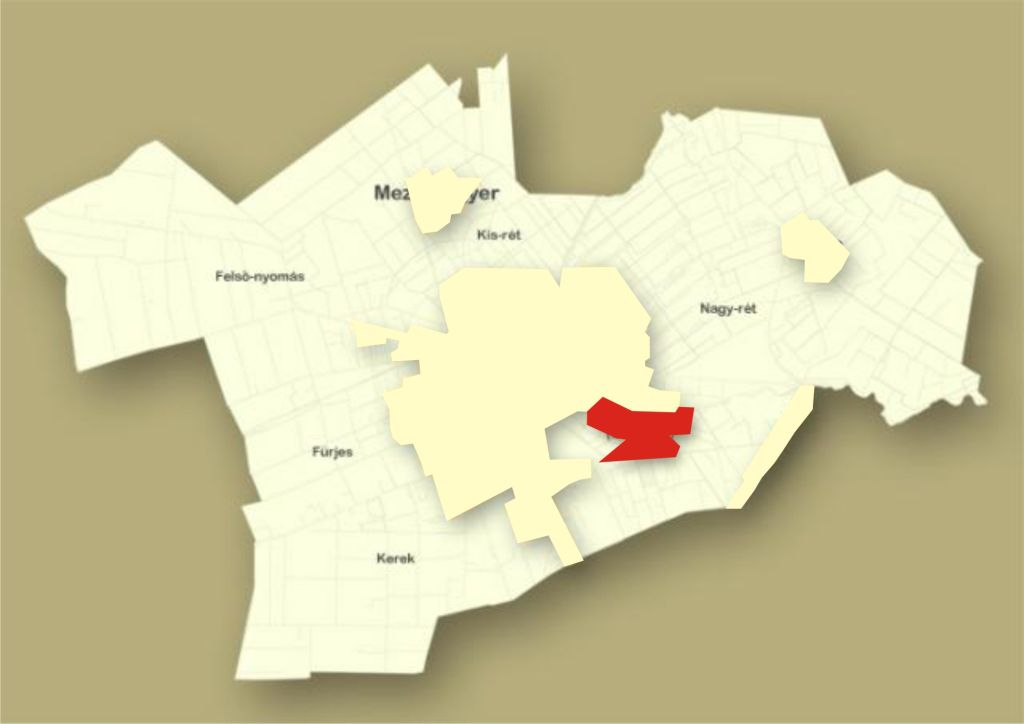 The map of the building estate "Lencsési lakótelep" in Békéscsaba